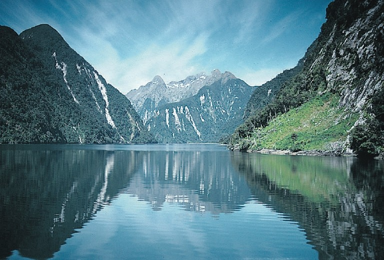 The steep sies of Doubtful Sound (New Zealand) indicate that it is a flooded glacial valley (fjord), formed when the world's sea levels rose following the last ice age.